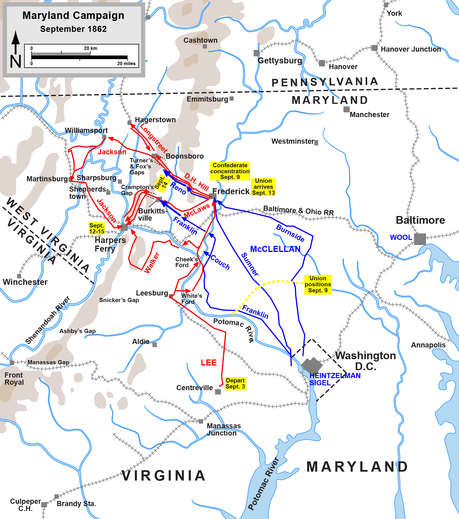 Map of the Maryland Campaign of the American Civil War, actions Sept. 3-15. Drawn by Hal Jespersen in Adobe Illustrator CS5. Graphic source file is available at